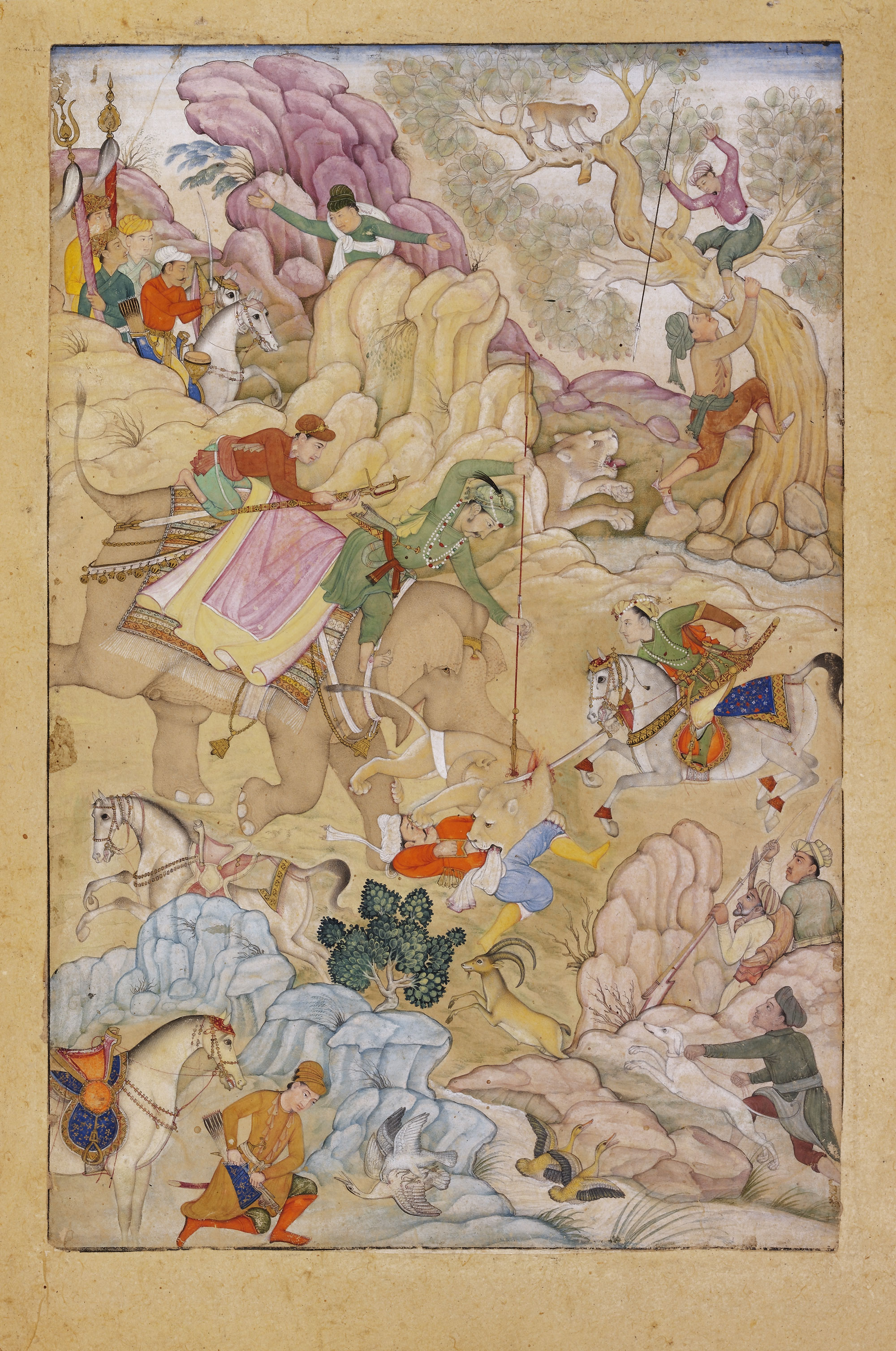 Jahangir's Lion Hunt ca. 1615, Aga Khan Museum, Geneva